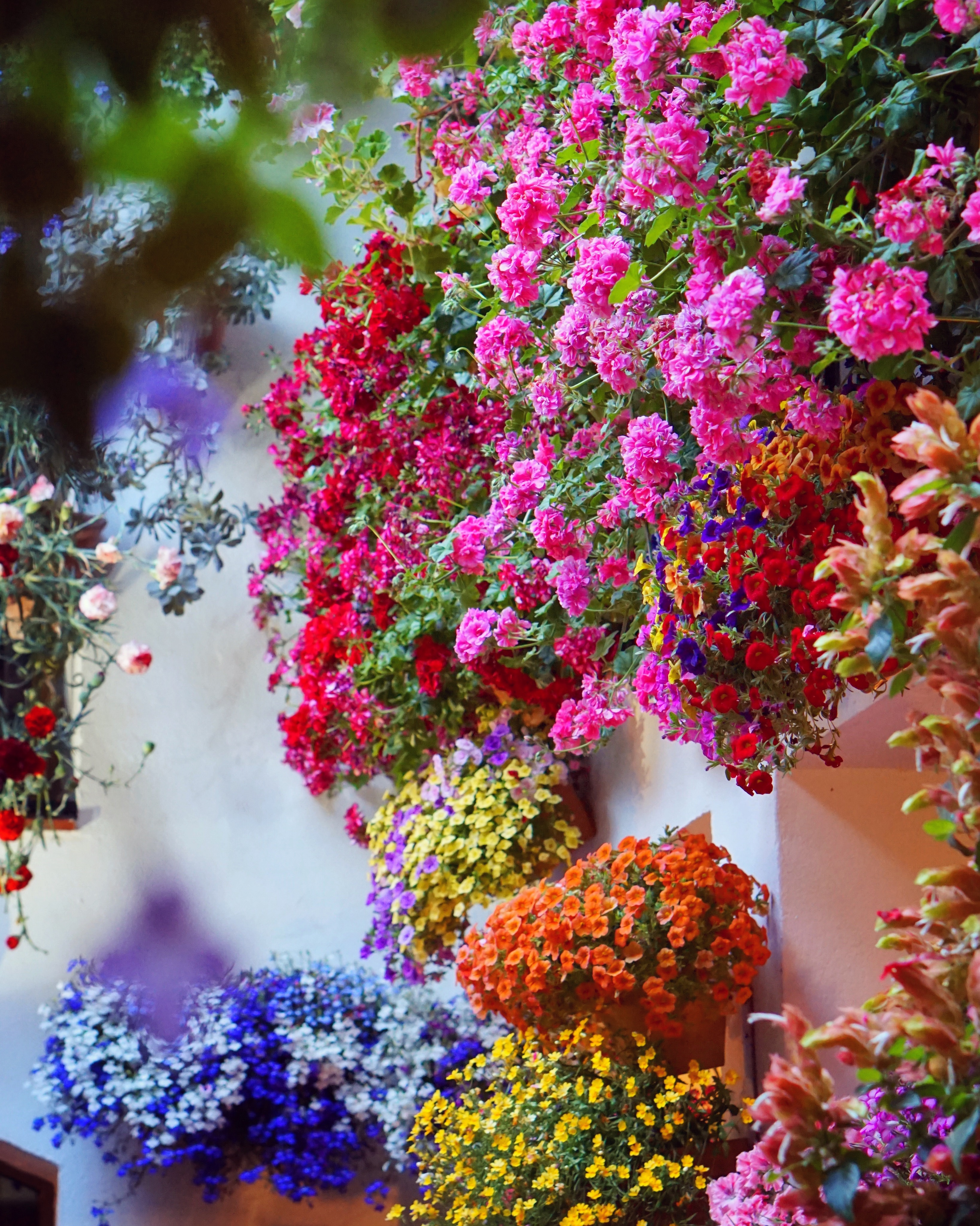 Córdoba, Spain is home to the Patios Festival every year, where residents decorate their interior patios with flowers and open them up to the public to tour. The interior patio is a staple of Córdoba's historical architecture, inherited from the city's Muslim past.